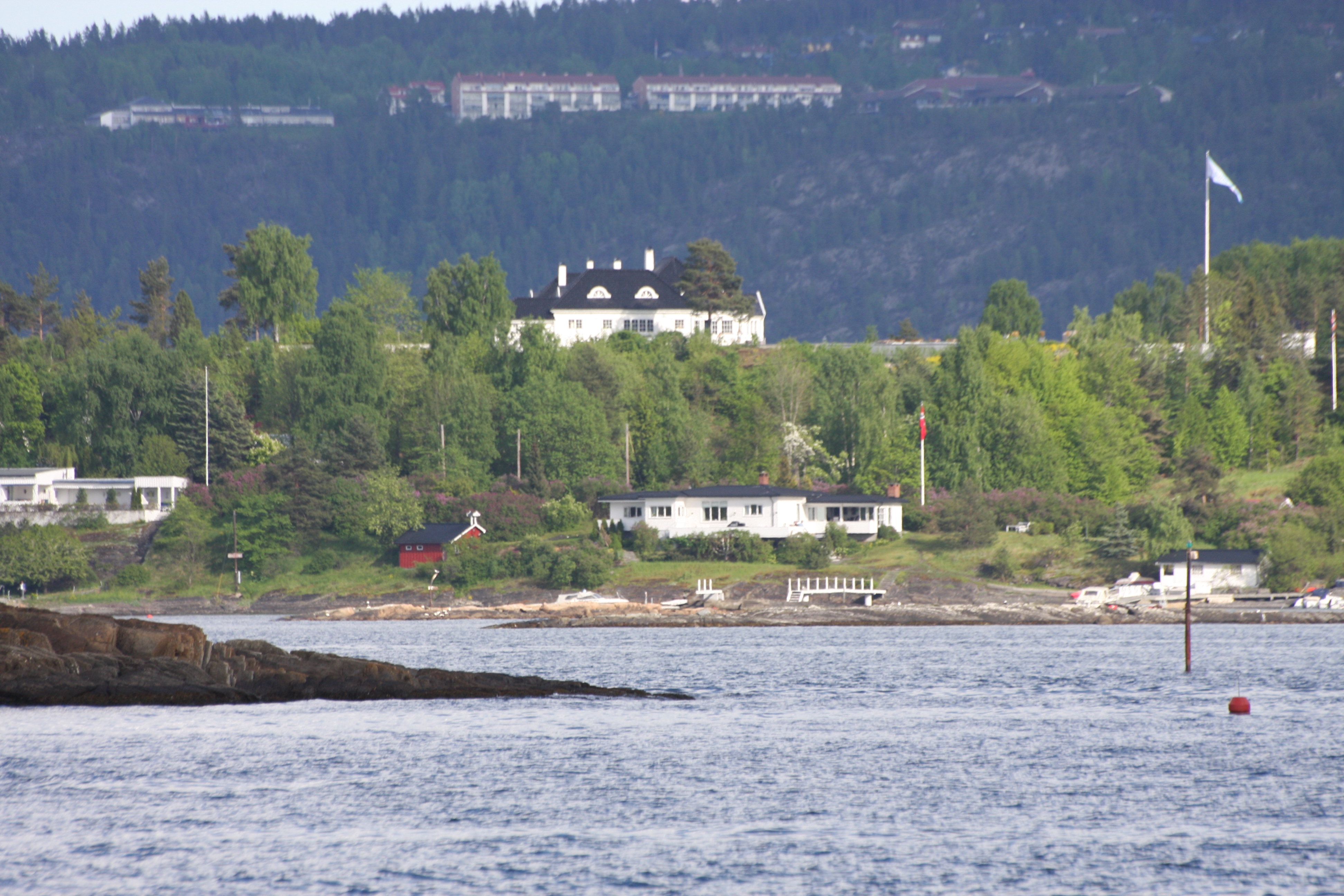 Gaasöya, an inlet in the archipelago of Bärum, in the Oslo Fjord, Norway.